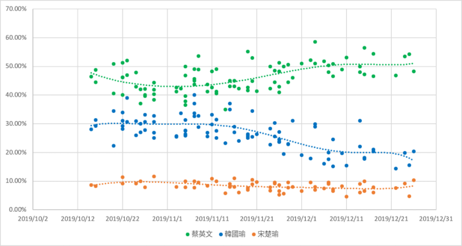 Polling trendlines of the 2020 Taiwanese presidential election. James Soong Han Kuo-yu Tsai Ing-wen